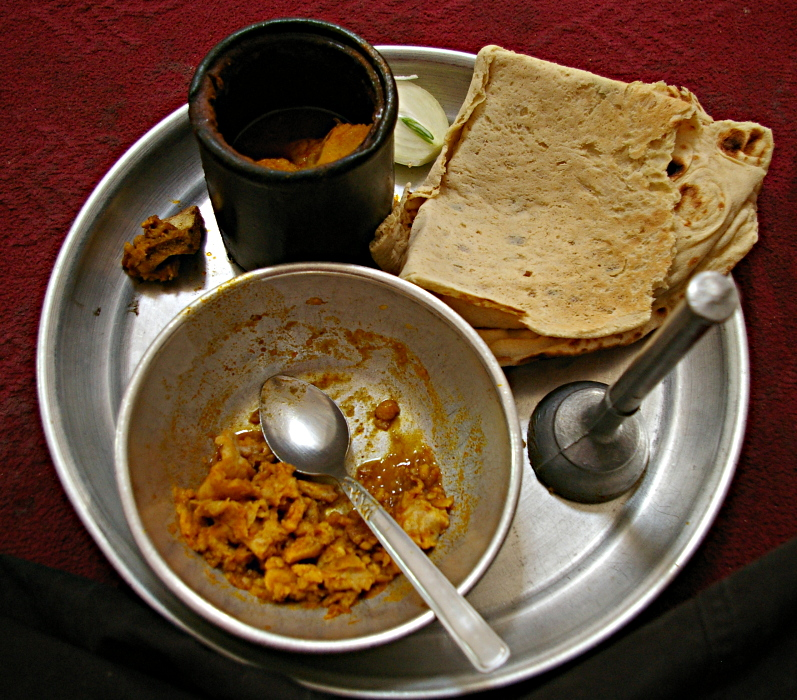 A plain dizi (abgoosht) plate.